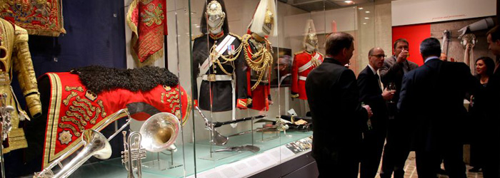 Evening reception at the Household Cavalry Museum